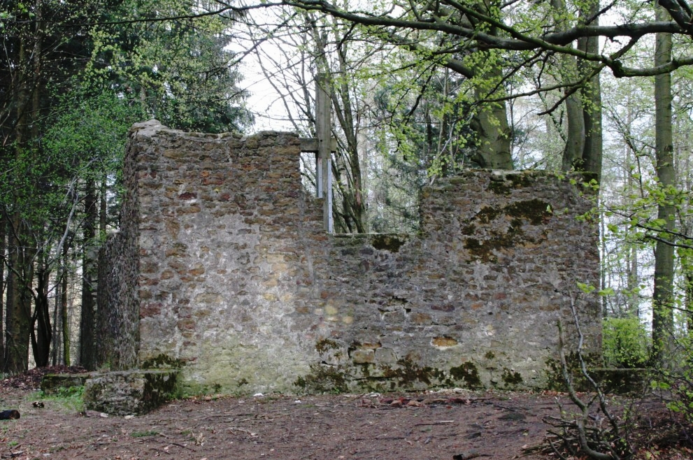 Außenansicht der Tönskapelle This is the photograph of an architectural monument. It is part of the list of cultural monuments of Oerlinghausen, no. 42